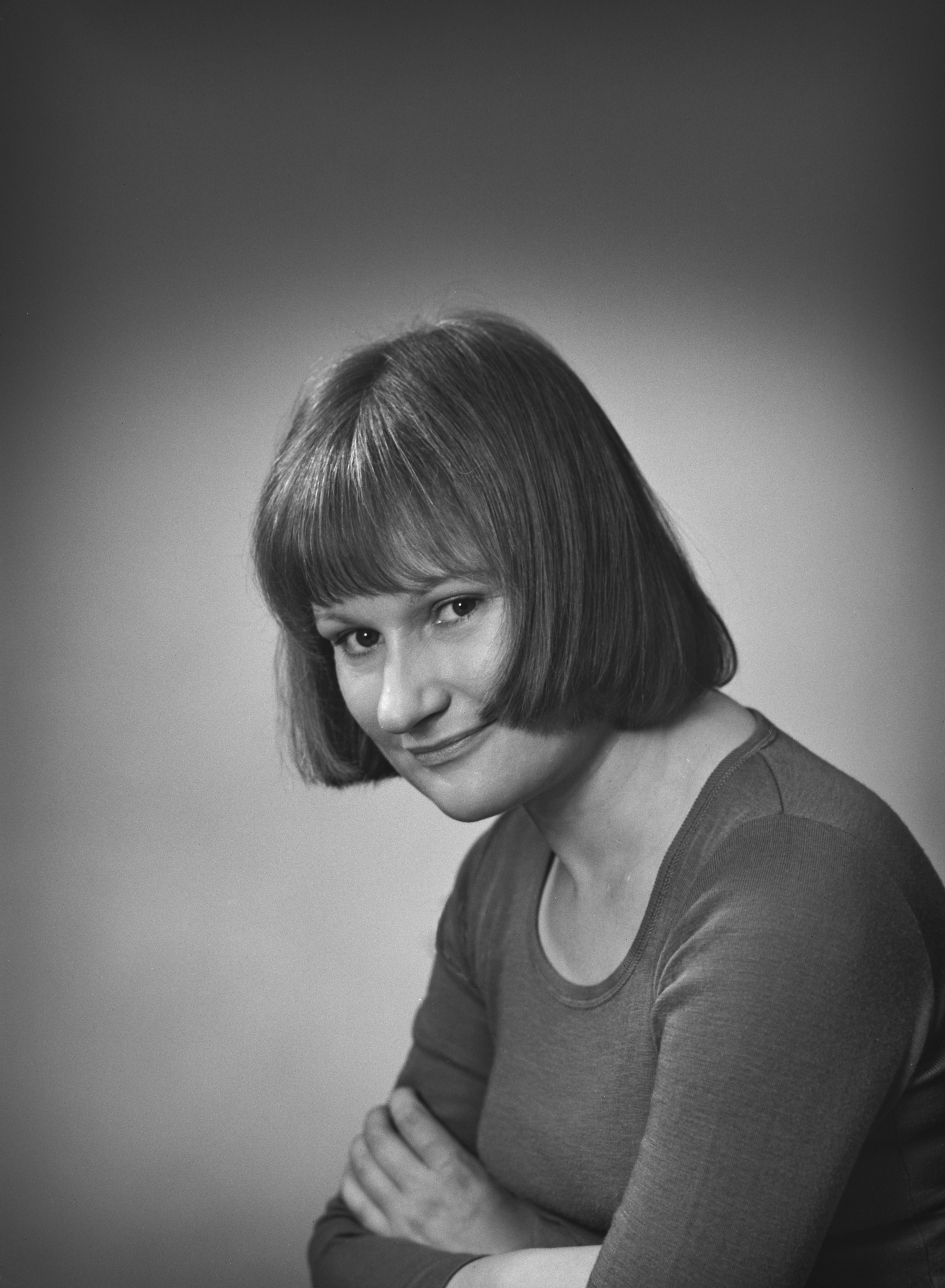 Photograph of the Finnish lawyer, future President of Finland, Tarja Halonen.